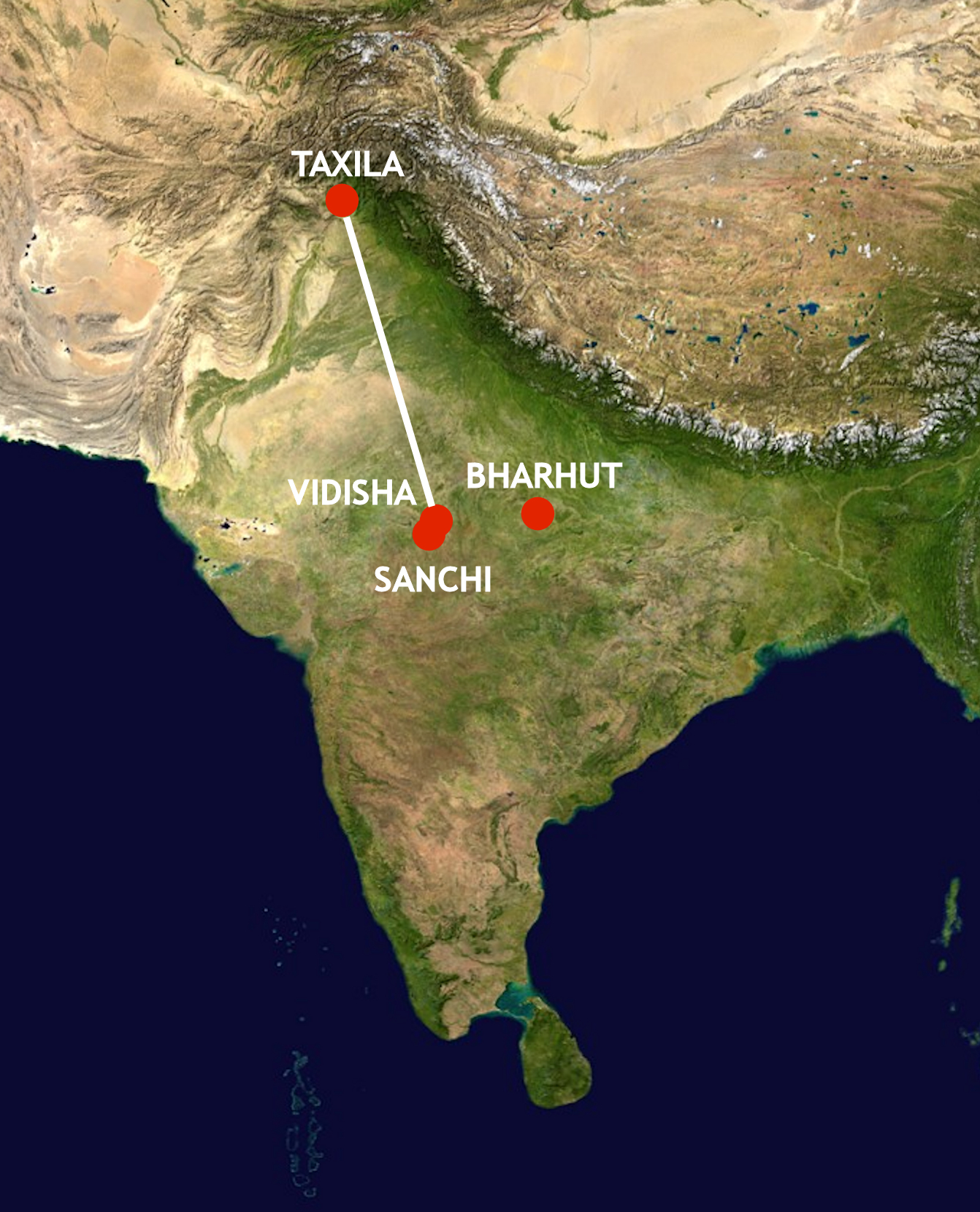 Taxila Vidisha Sanchi Bharut